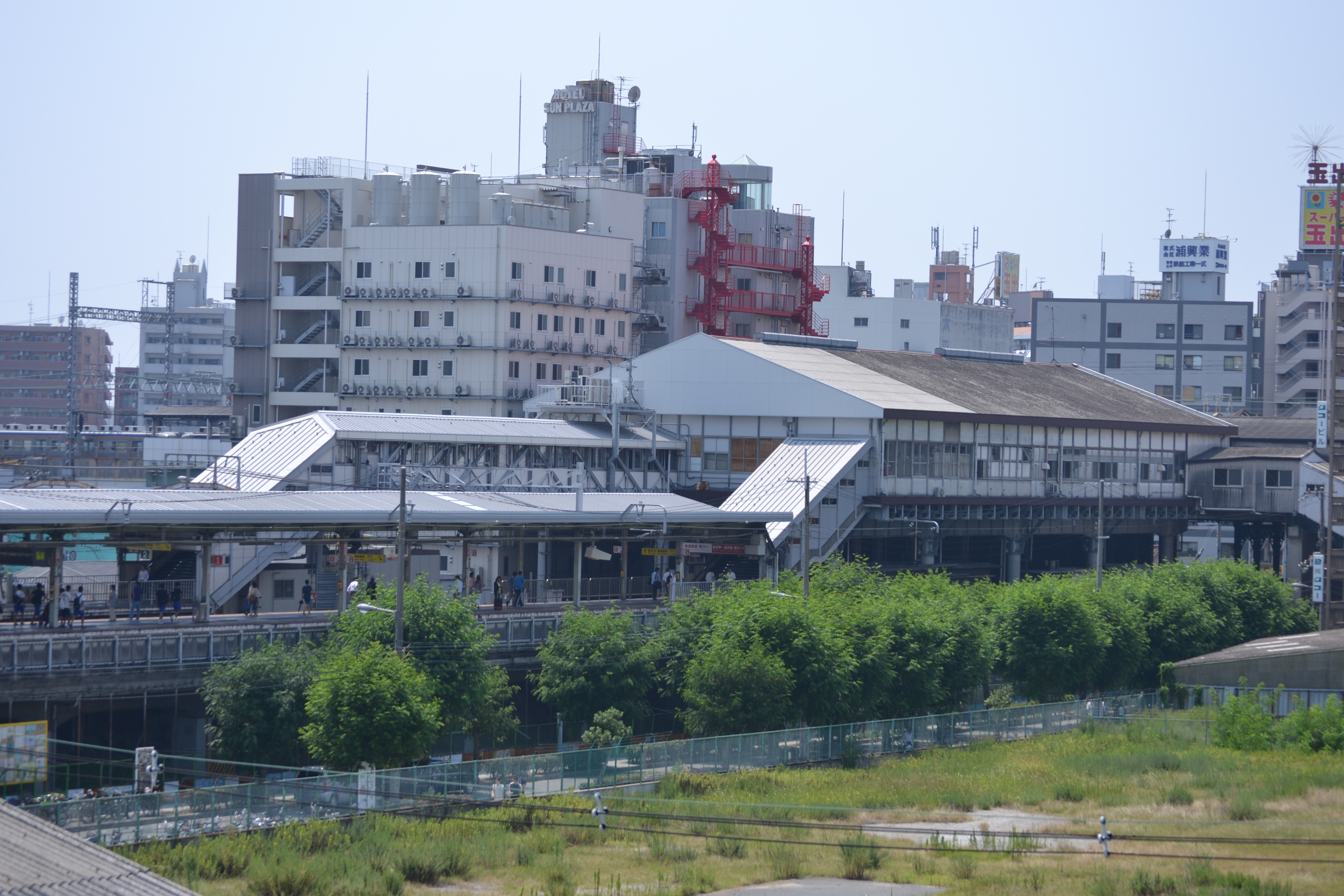 The external appearance of Shin-Imamiya Station